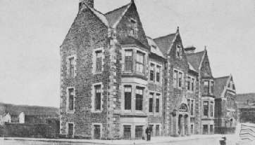 Parc and Dare Miner's Institute in 1894. Located in Treorchy, Rhondda, South Wales.